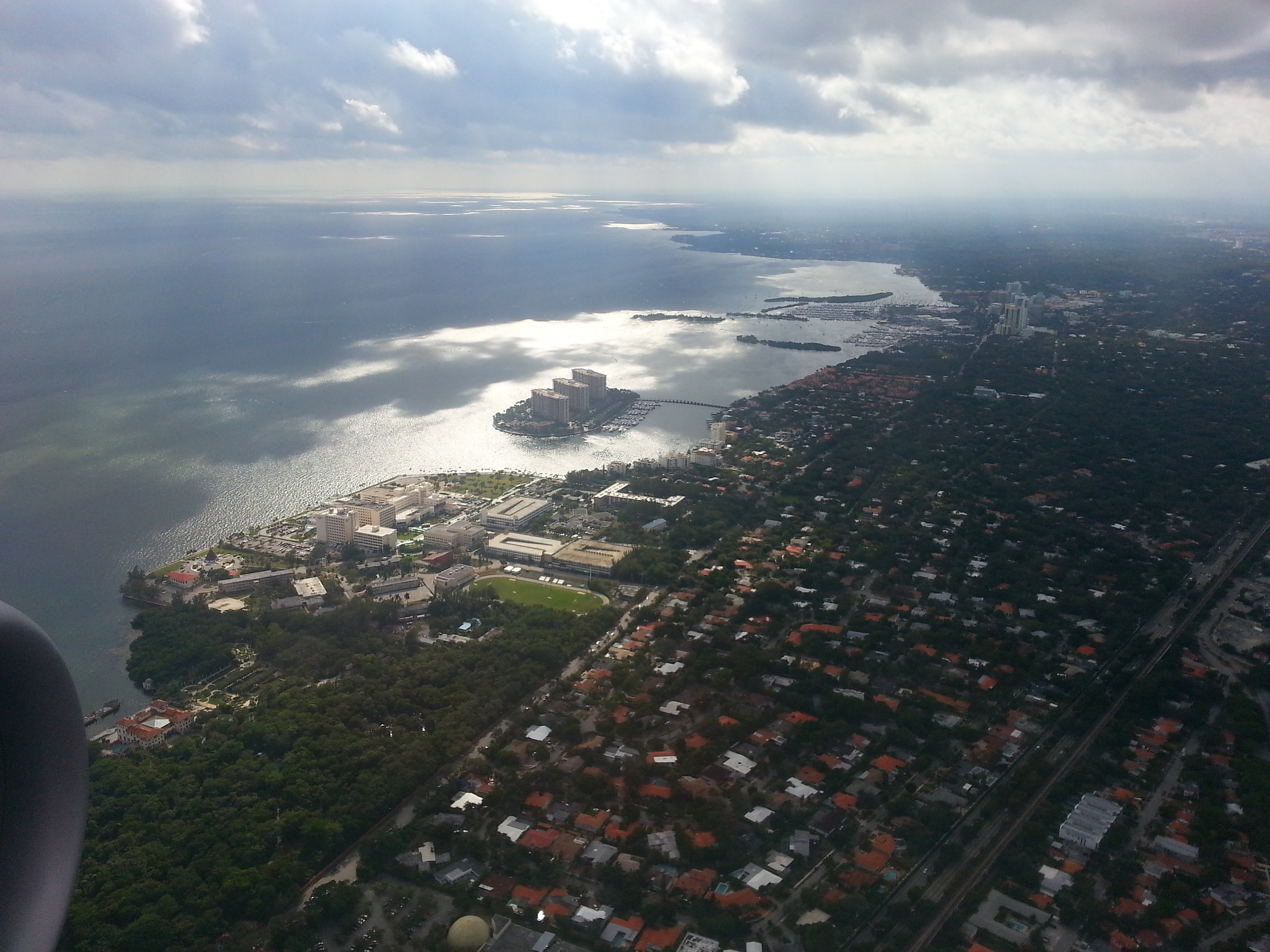 Coconut Grove neighborhood of Miami (USA) from window plane